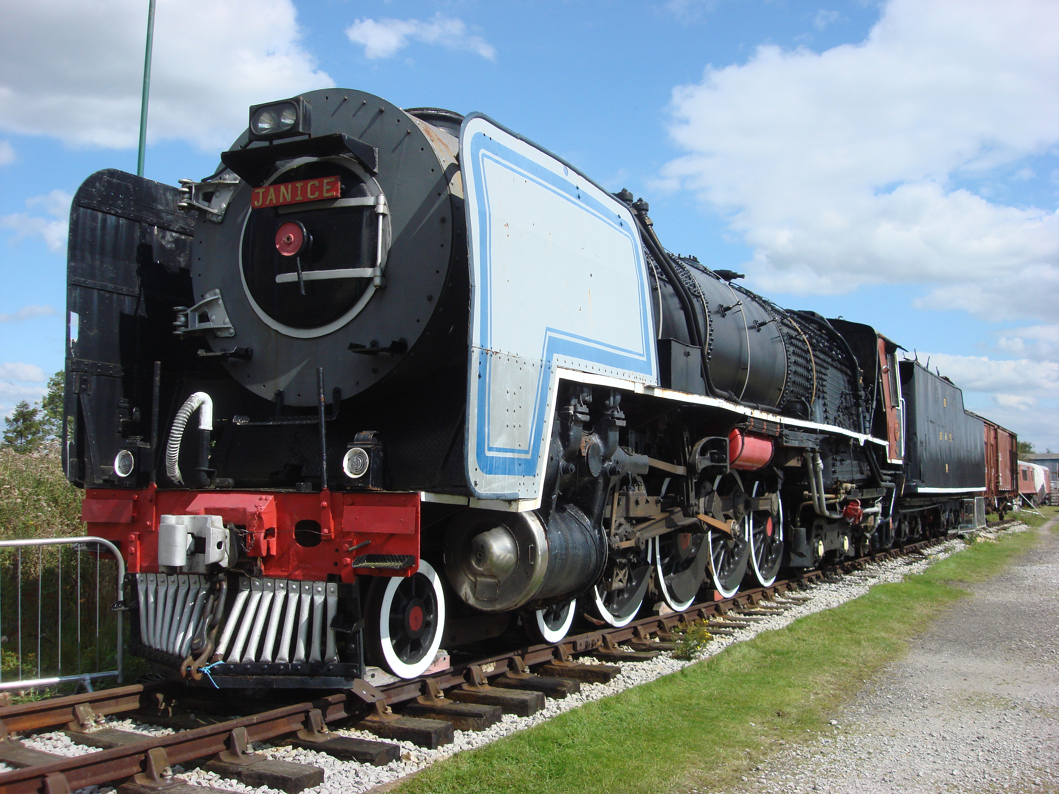 South African Railways 25NC Class No. 3405